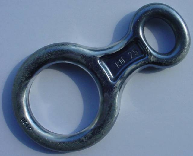 Figure Eight device